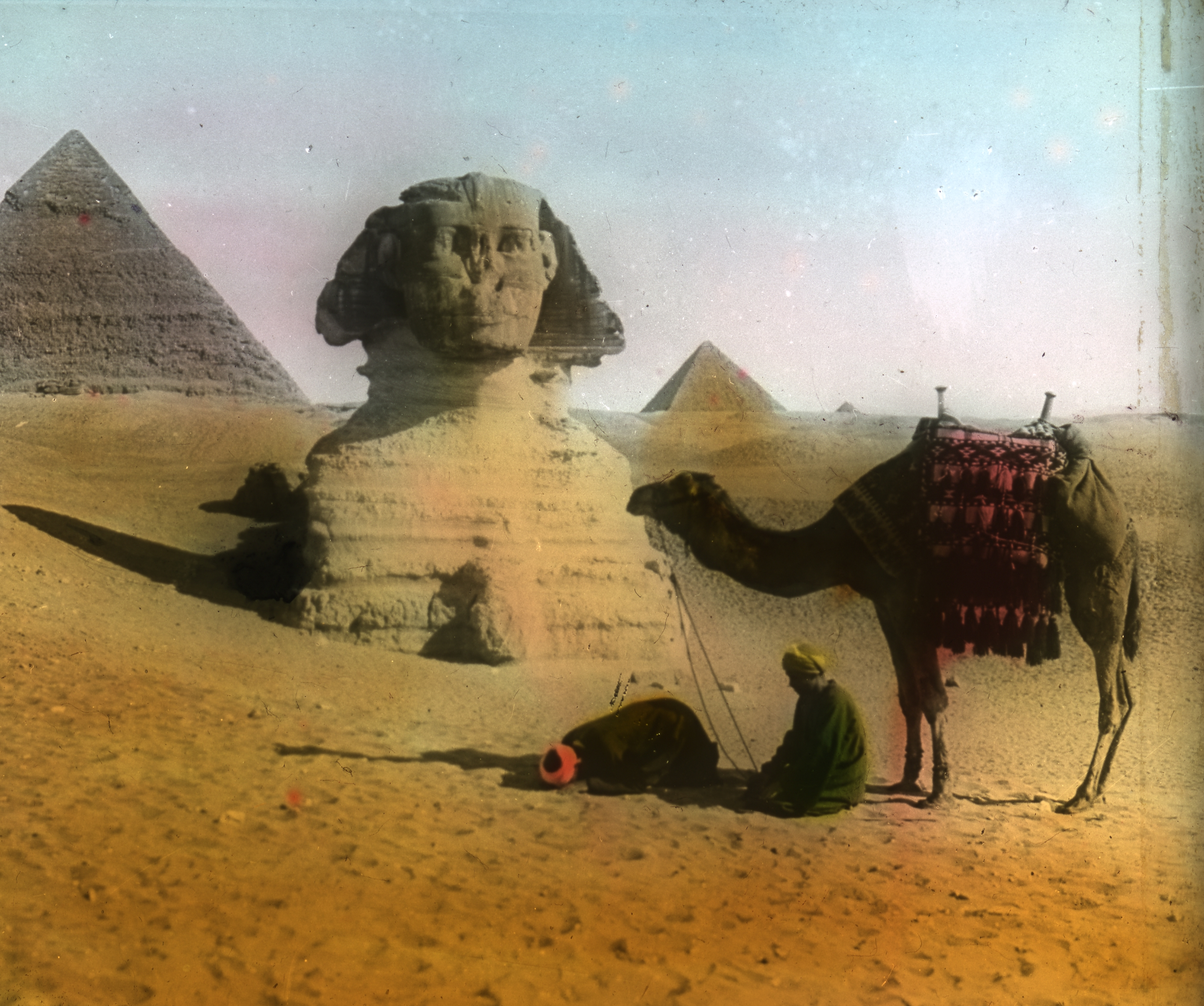 Lantern Slide Collection: Views, Objects: Egypt. Gizeh [selected images]. View 06: Sphinx and Pyramid., n.d. Brooklyn Museum Archives (S10-08 Gizeh, image 9614).